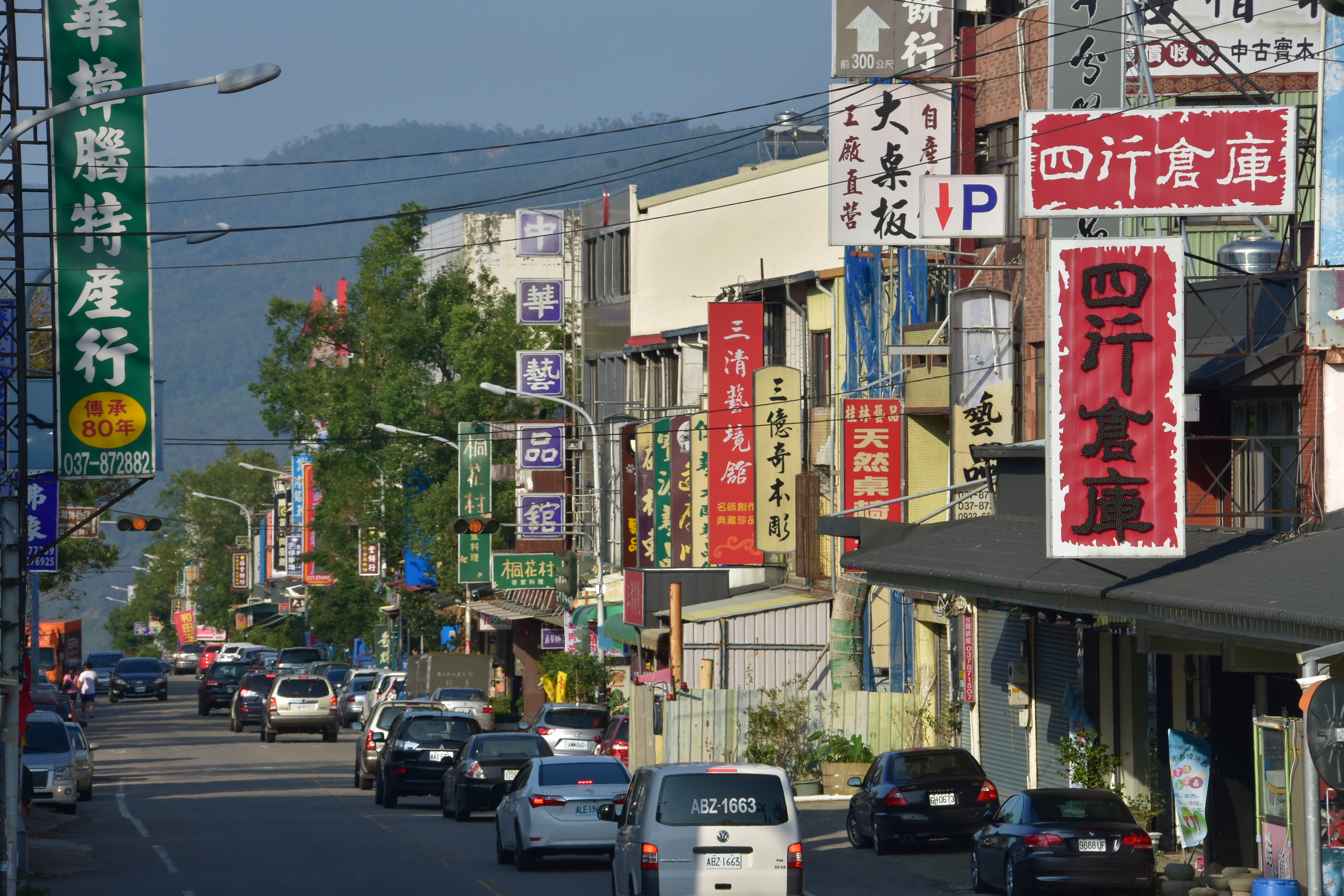 Provincial Highway 13 through Sanyi.